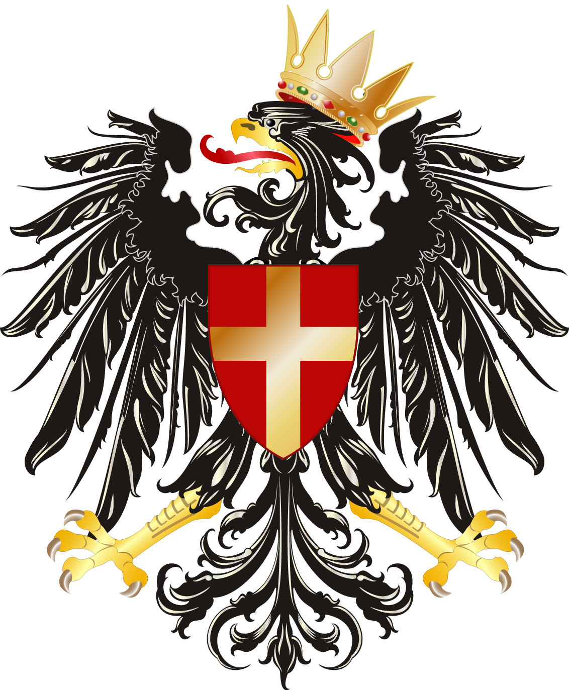 Coat of arms of Mistretta (Messina), Italy